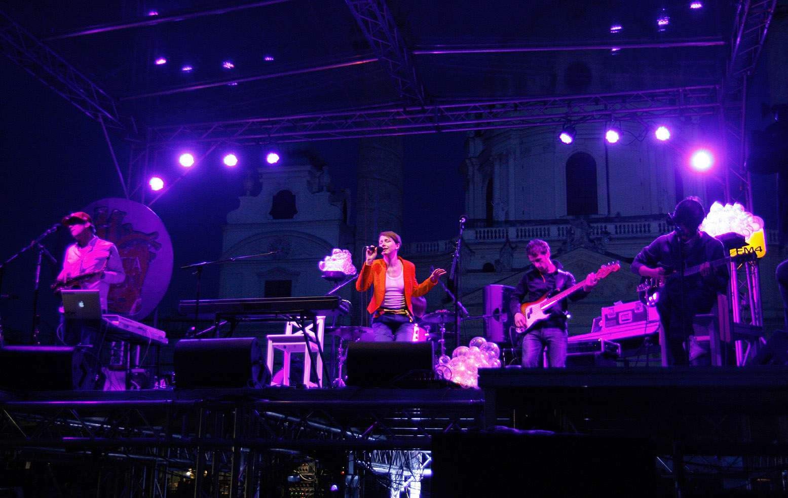 Violetta Parisini, Popfest 2011 in Vienna.